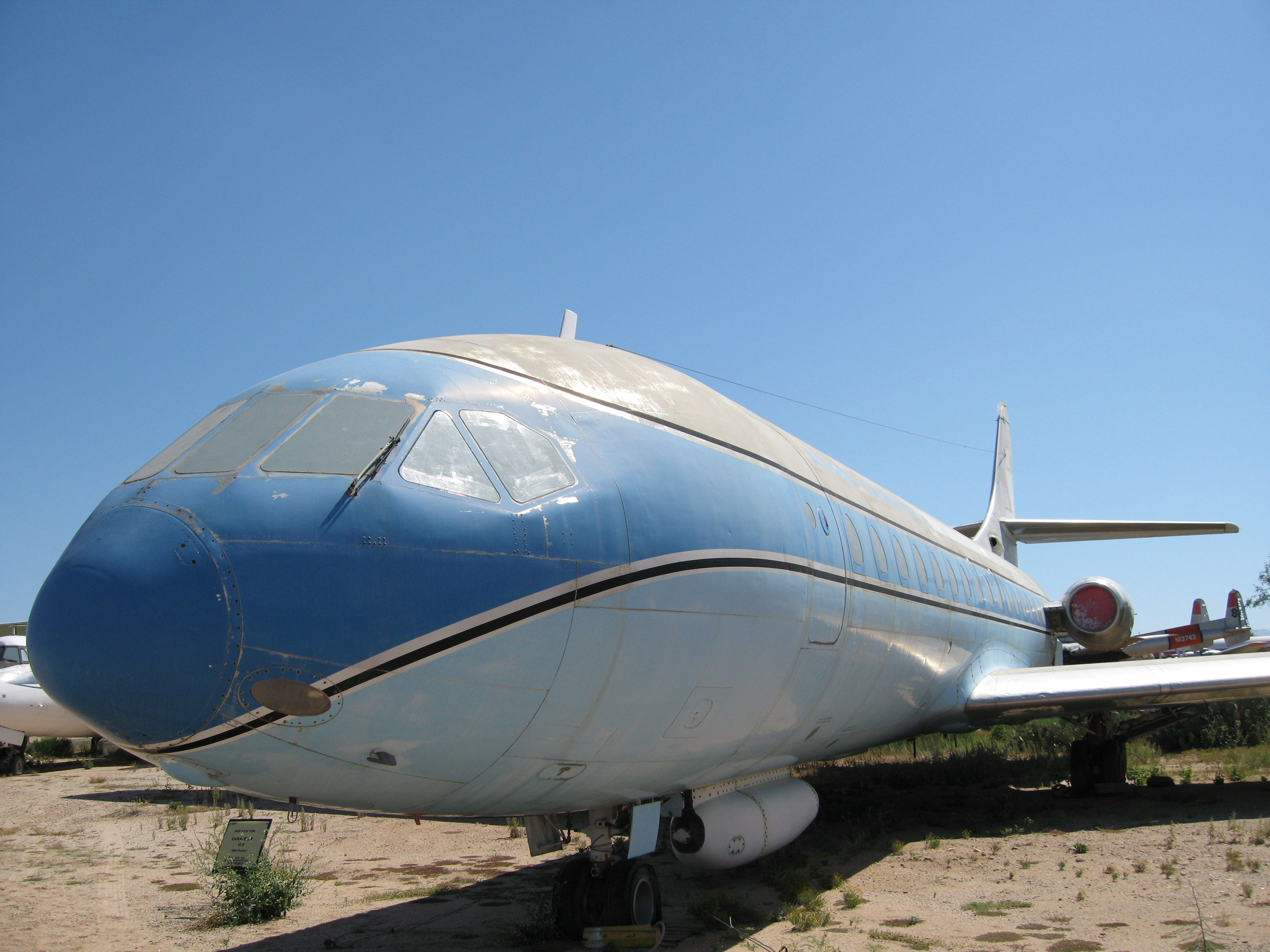 Sud Aviation Caravelle at Pima Air & Space Museum